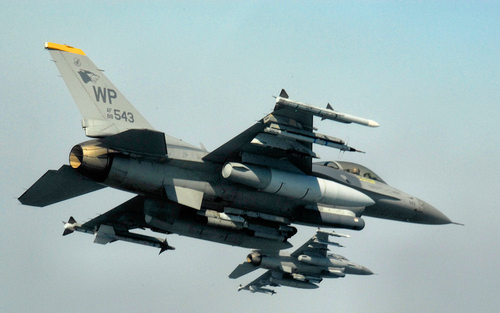 Pilots from the 80th Fighter Squadron fly a training mission over the South Korean peninsula in F-16 Fighting Falcons, Feb 20. Pilots assigned to the 80th FS utilize training missions to simulate actual conditions they may face in combat and keep their war-fighting skills honed. (U.S. Air Force Photo/Tech. Sgt Quinton T. Burris)